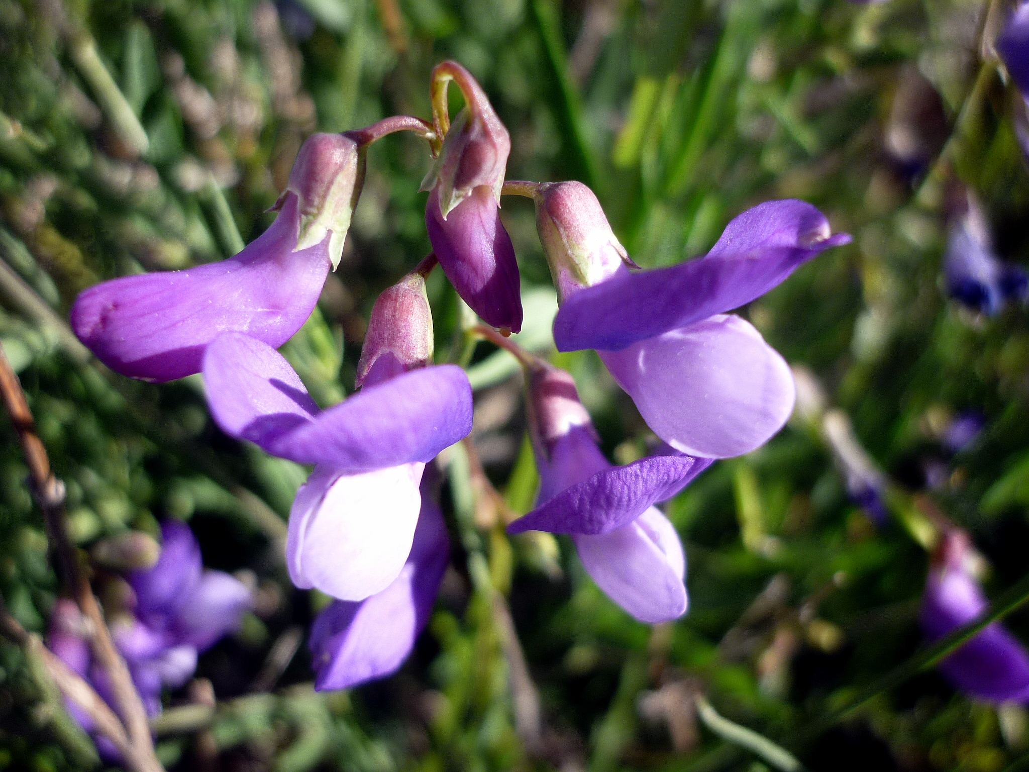 Lathyrus filiformis. In l'Alzina d'Alinyà (Alt Urgell-Catalunya). To 1.440 m. altitude